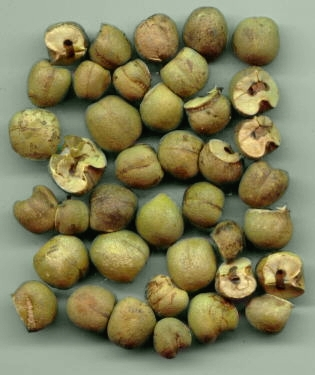 own image Paul venter 20:07, 28 July 2006 (UTC)